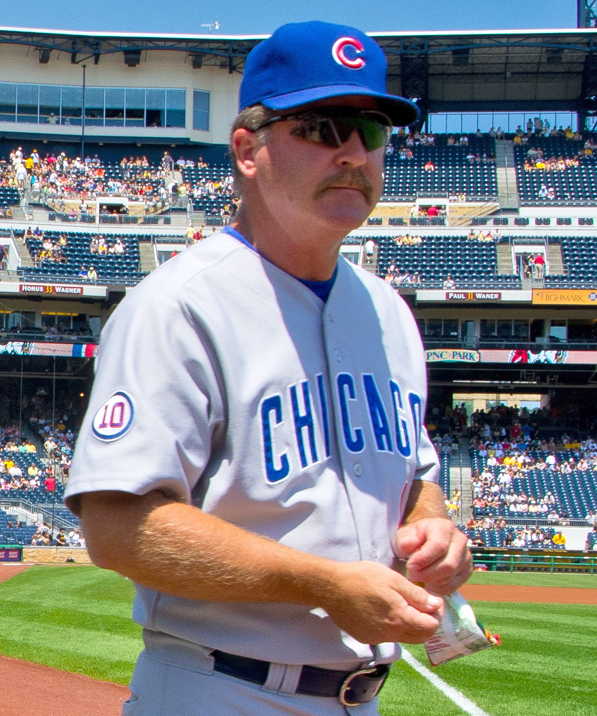 Chicago Cubs coach Mark Riggins at PNC Park on Miracle League Day (Pirates vs. Cubs) in Pittsburgh, PA